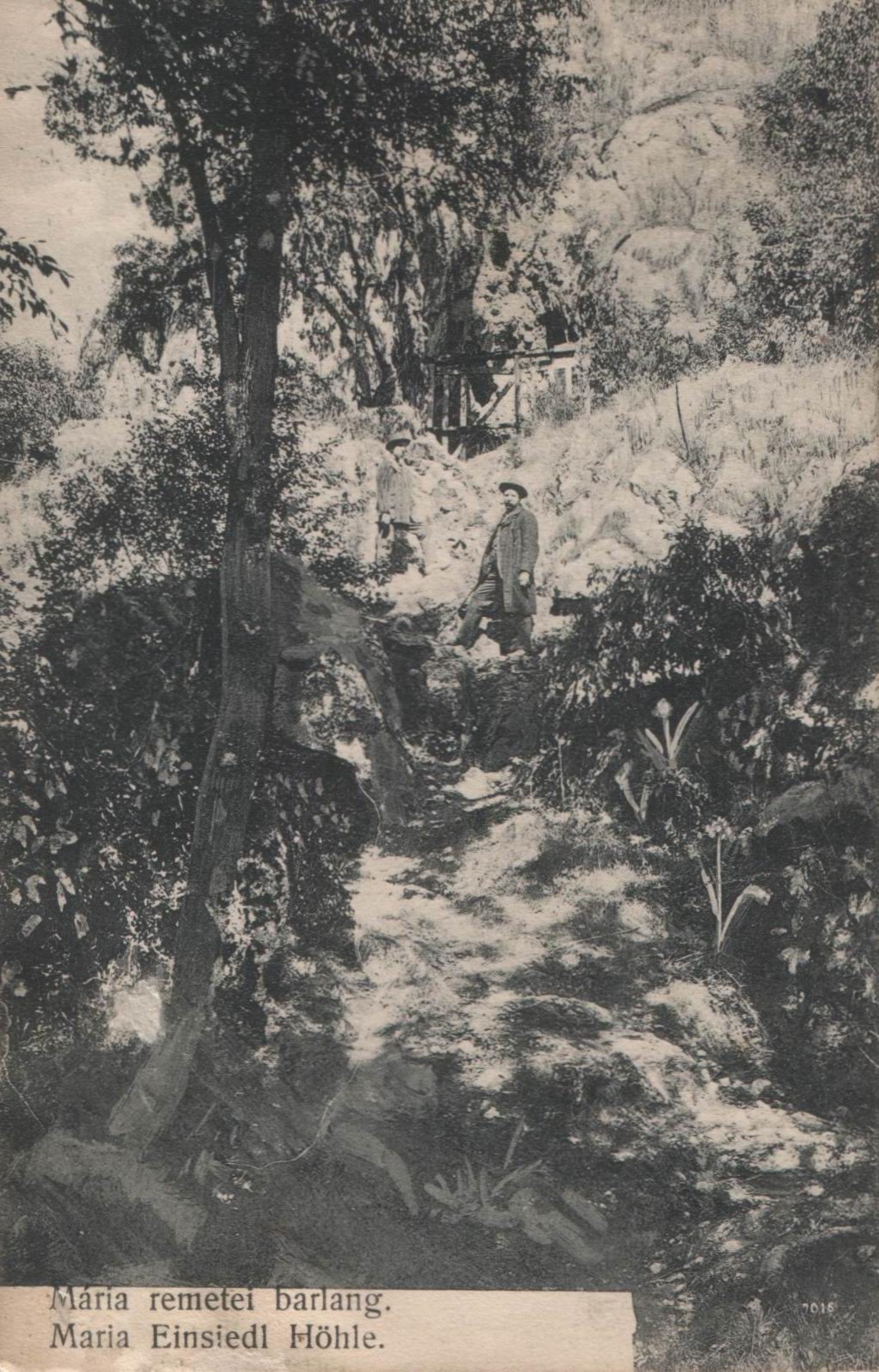 Remete Cave in Buda Hills (postcard).